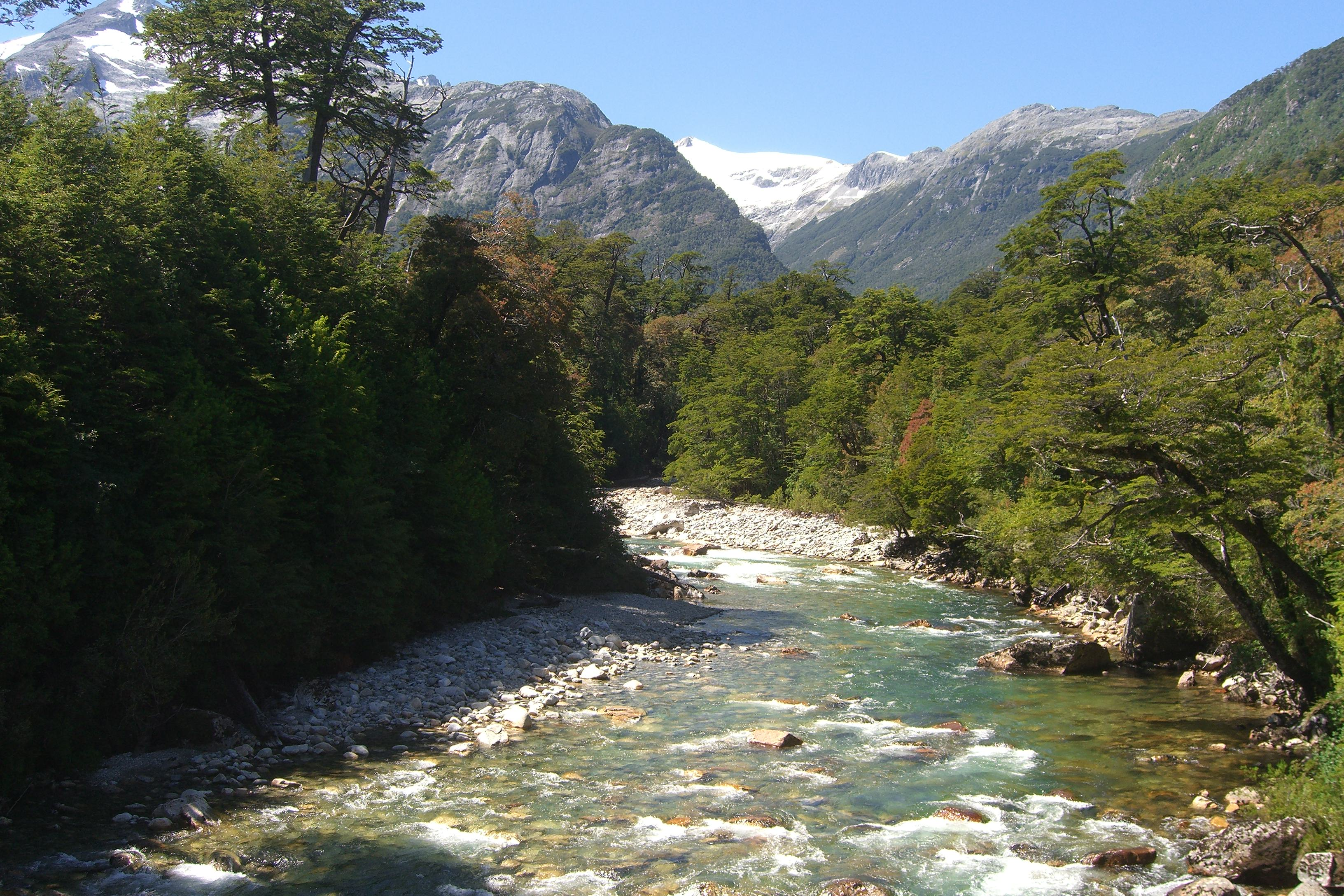 Sigh, yet another gorgeous view along the Carretera Austral. Even when the road was at its crappiest, the views were superb every miserable step of the way.